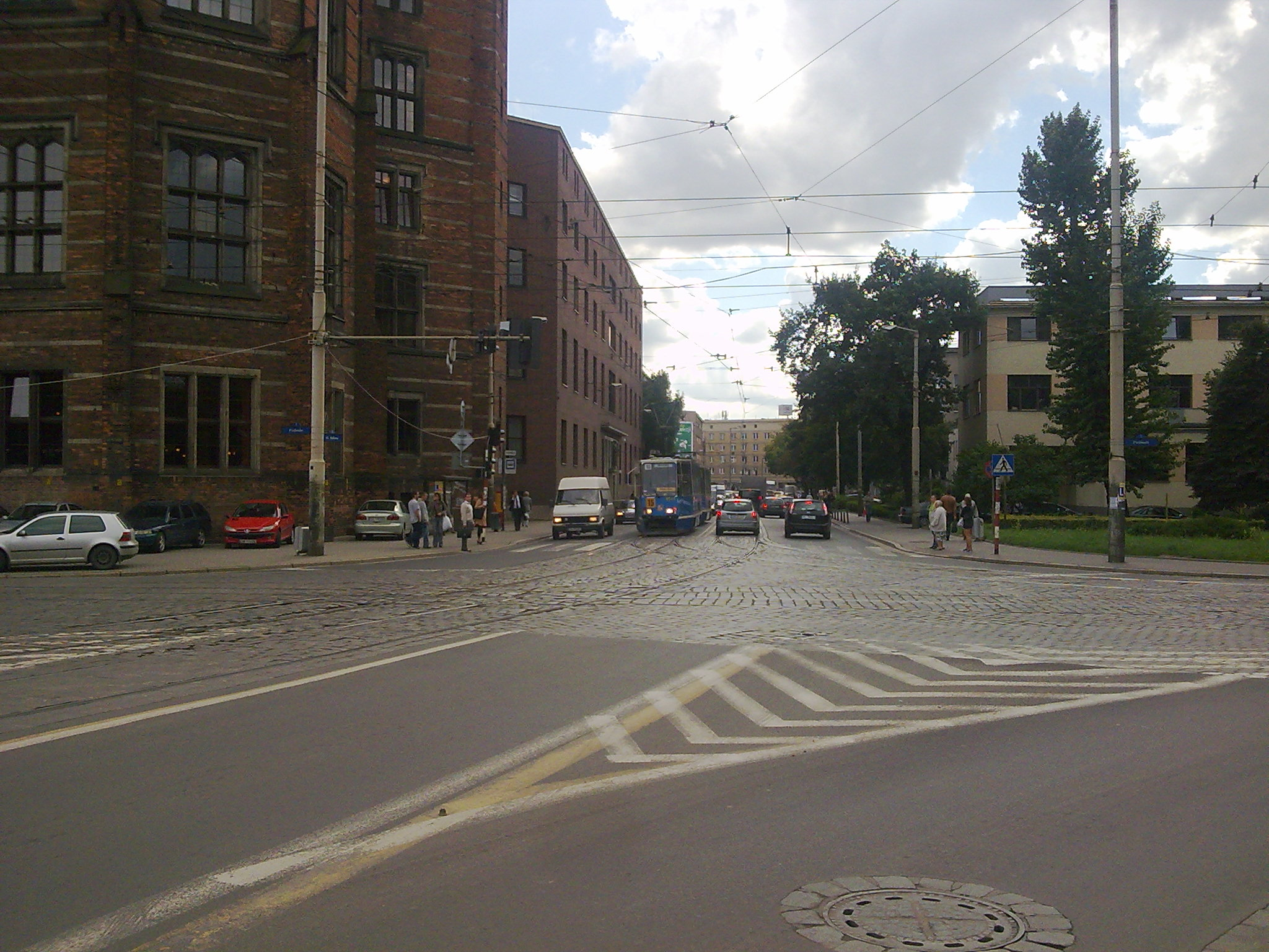 Sądowa Street in Wrocław.